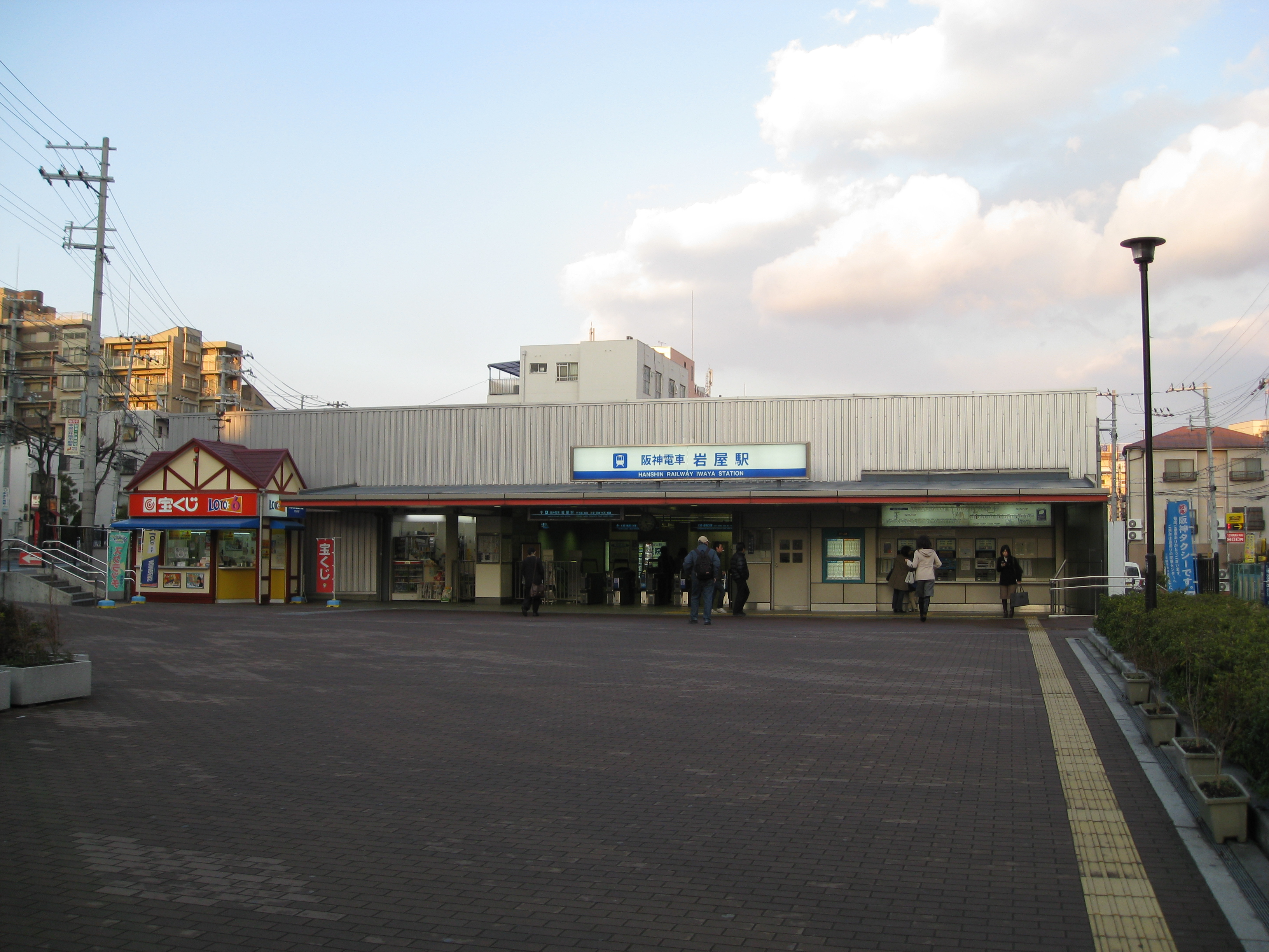 Iwaya Station in Kobe, Hyogo, Japan. It is a station on the Hanshin Main Line operated by Hanshin Electric Railway.